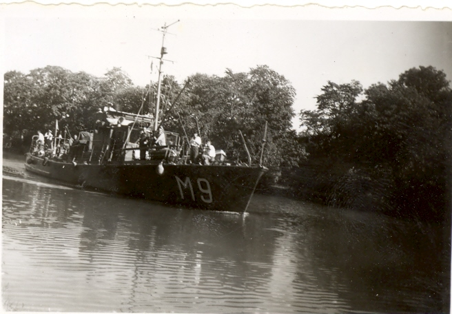 The Swedish minesweeper HMS M9 passing the Berg Locks in Göta Canal in the summer of 1952.